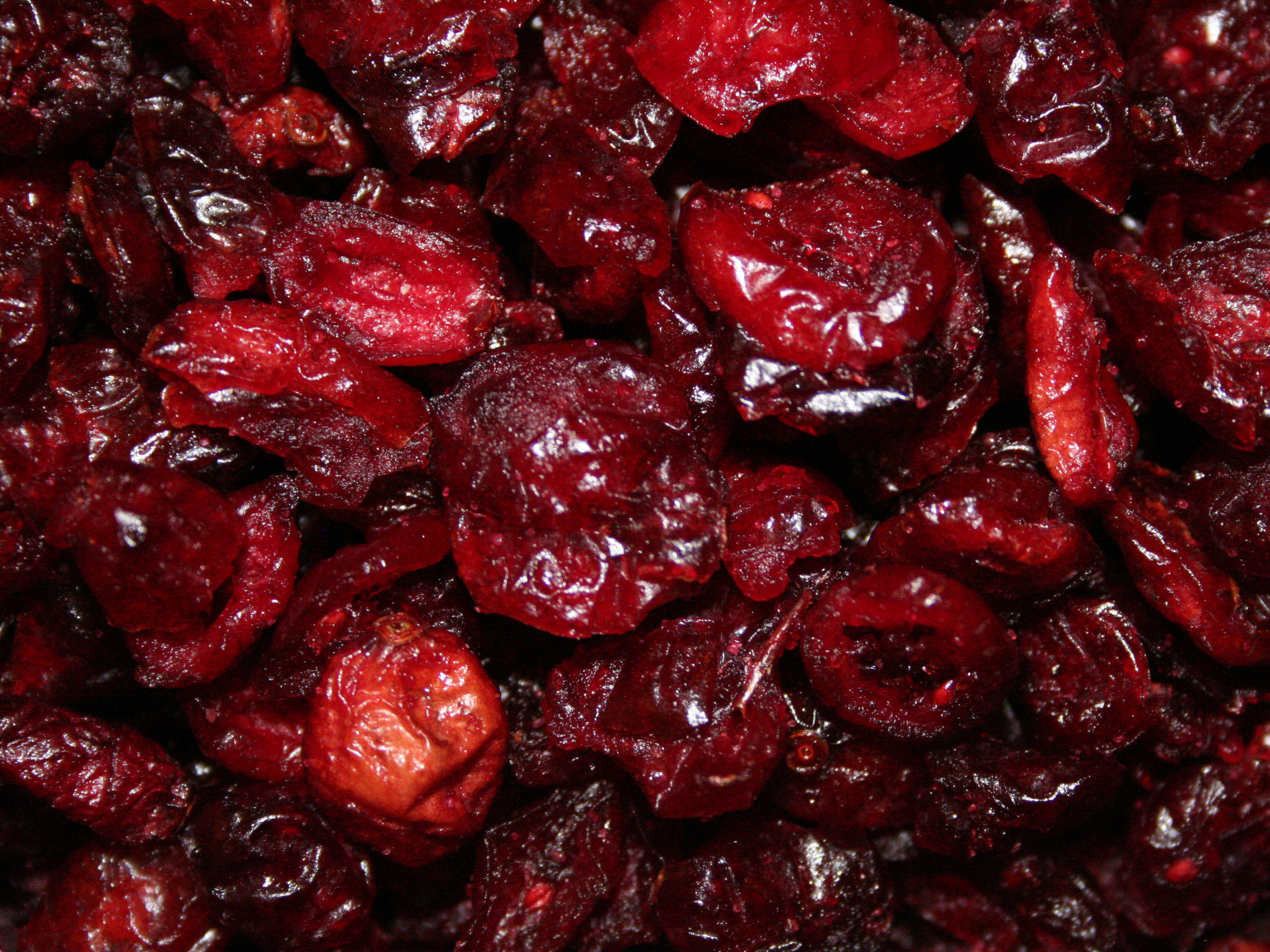 Ocean Spray Craisins brand dried cranberries